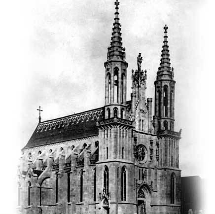 Church of the Blessed Virgin Mary's Immaculate Conception